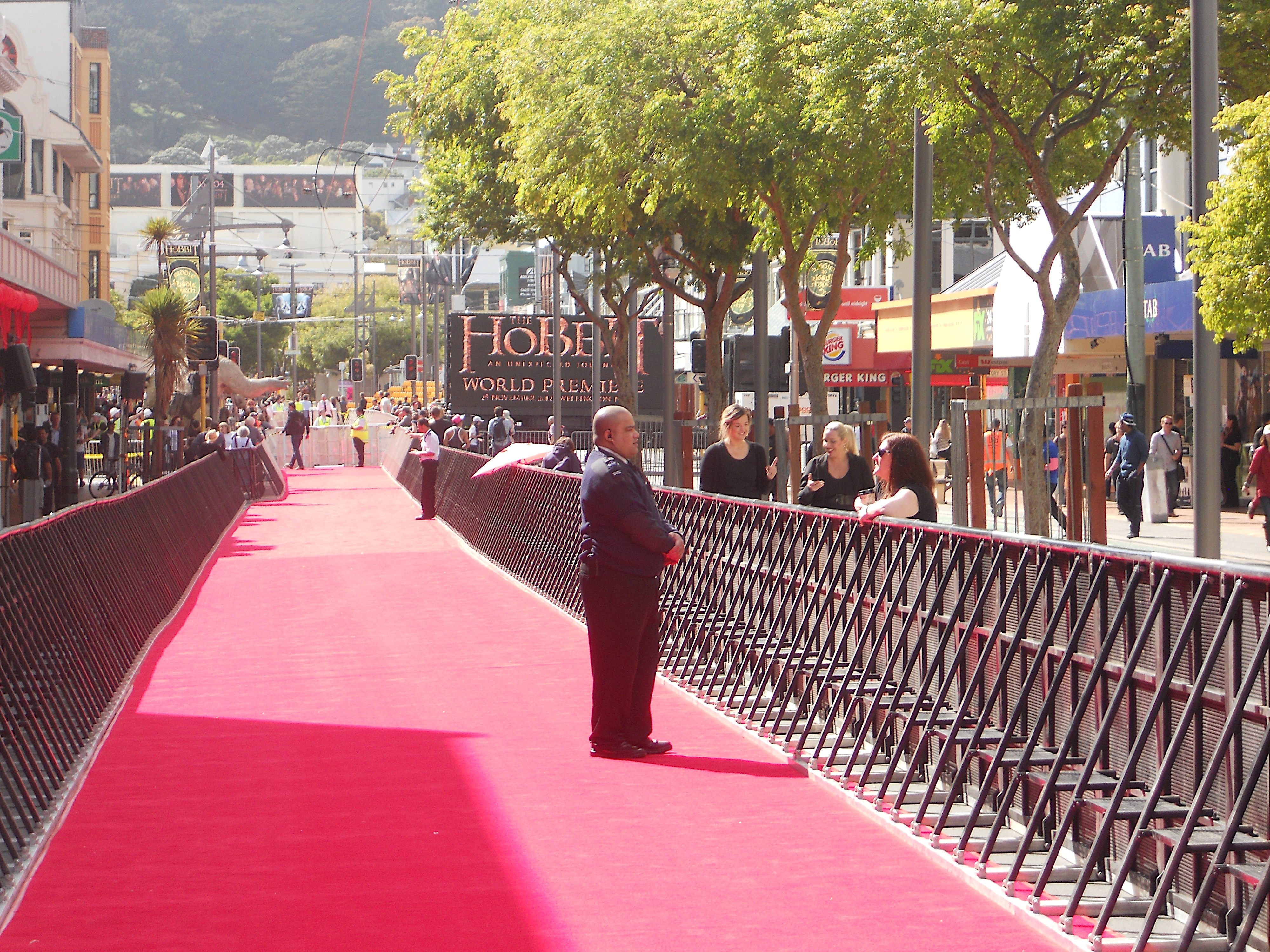 The red carpet at the world permiere of The Hobbit: An Unexpected Journey, outside the Embassy Theater in Wellington, New Zealand.